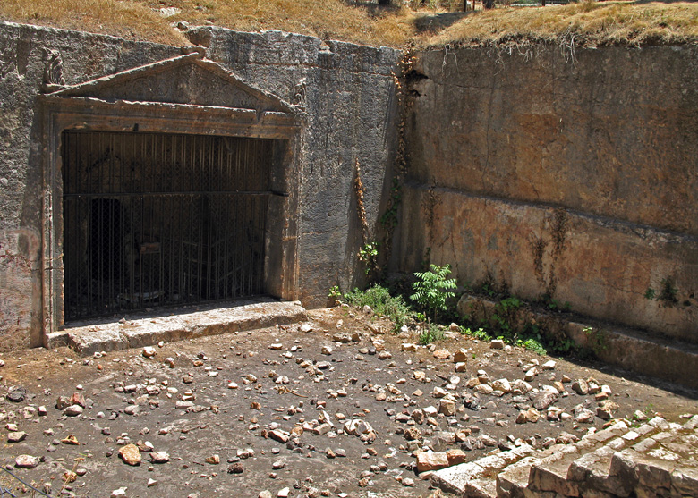 The Sanhedrin Tombs, in Sanhedria neighborhood, Jerusalem, Israel